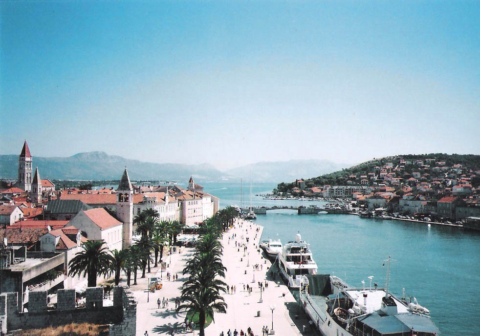 View of Trogir, Croatia (photograph is scanned)